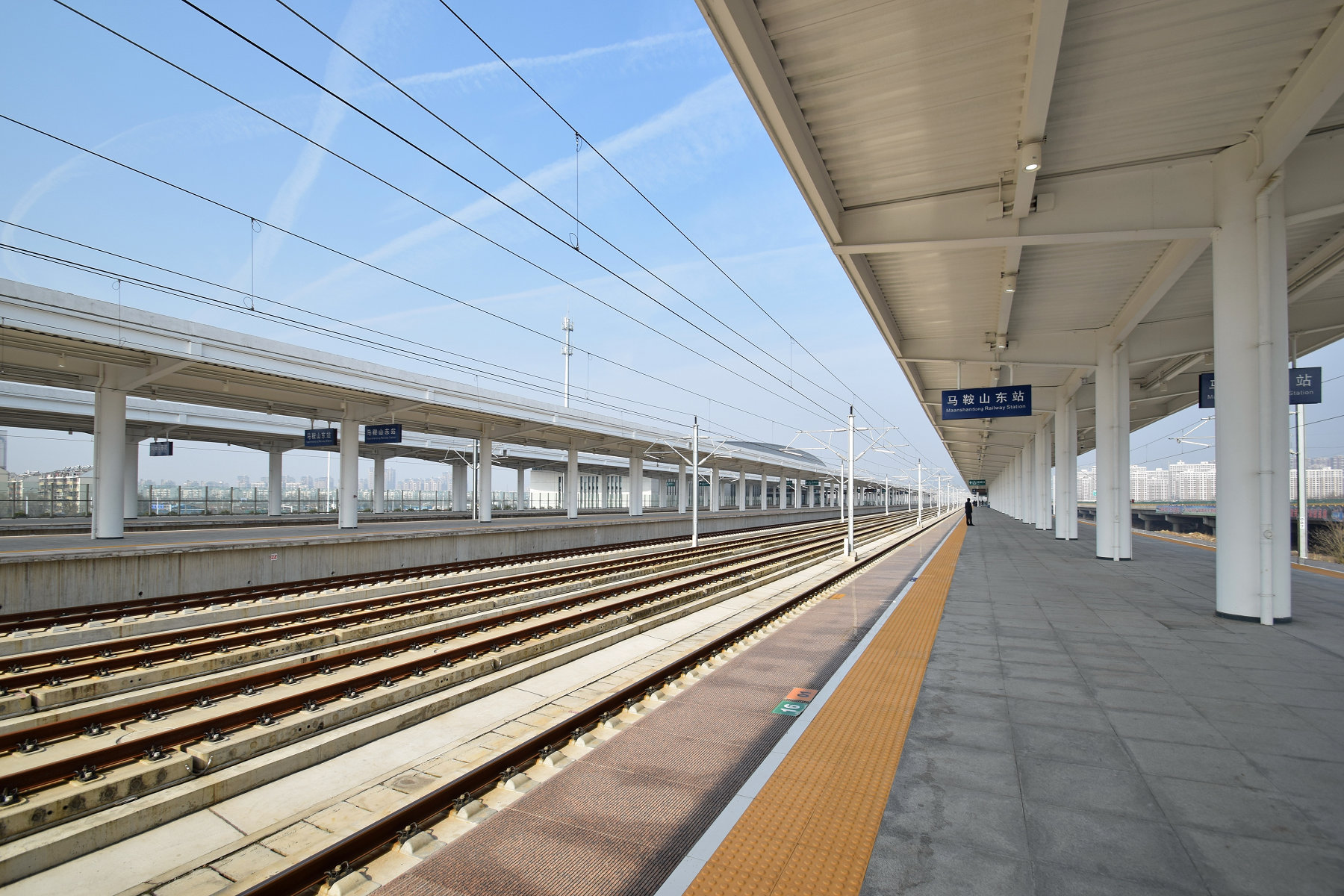 Platforms of Ma'anshan Dong (East) Railway Station, Nanjing - Anqing High-speed Railway